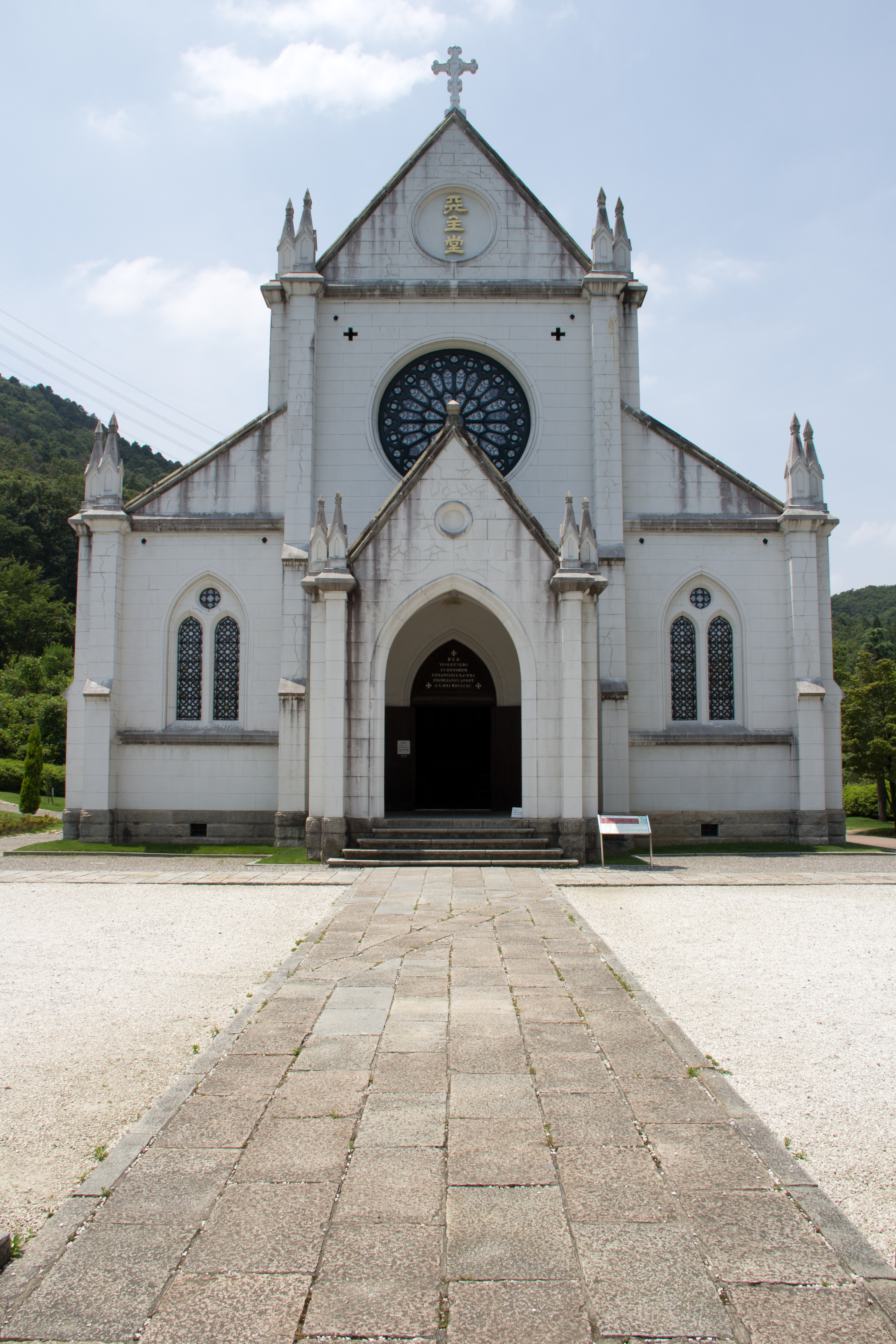 St. Francis Xavier's Cathedral Sanjyo Kawaramachi Nakagyou-ku Kyoto, built in 1890, gothic style